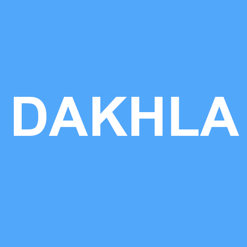 Logo from the tourism portal for Dakhla